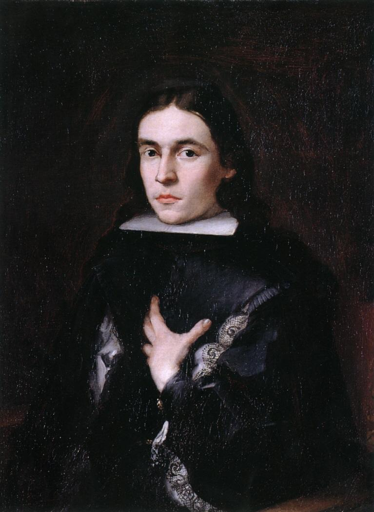 Retrato del político español de origen Napolitano Fernando de Valenzuela (1636-1692), que llegó a ser marqués de Villasierra y caballero de la Orden de Santiago, aunque la identificación del retrato con dicho individuo no está plenamente corroborada pero es aceptada por los historiadores con algunas reservas. Figura de medio cuerpo y tres cuartos a la izquierda de hombre joven rasurado con larga melena y golilla a la moda de Carlos II, vestido de negro con mangas orladas de encaje y sentado en sillón frailero llevando la mano izquierda al pecho. Fondo aceitunado. OBSERVACIONES: En el bastidor, letrero a pluma sobre la madera que dice: Fernando de Valenzuela. Ministro de Carlos II. 1675. Original de Carreño. Cat. Nº 871: Carreño.- Retrato de Valenzuela (El Duende de Palacio).